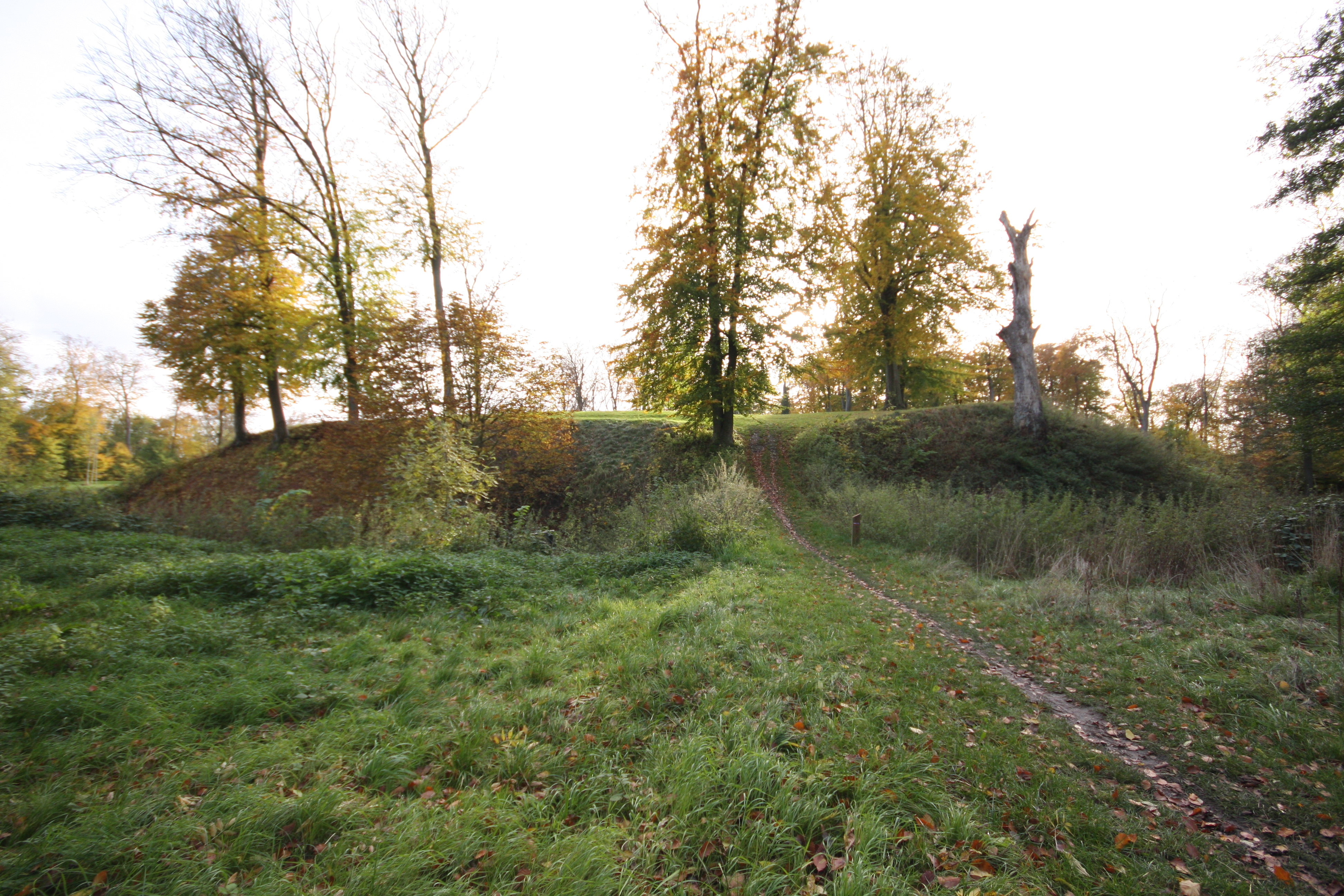 Næsbyhoved slotsbanke, a hill in Odense, Denmark, on which Næsbyhoved Castle stood until 1534